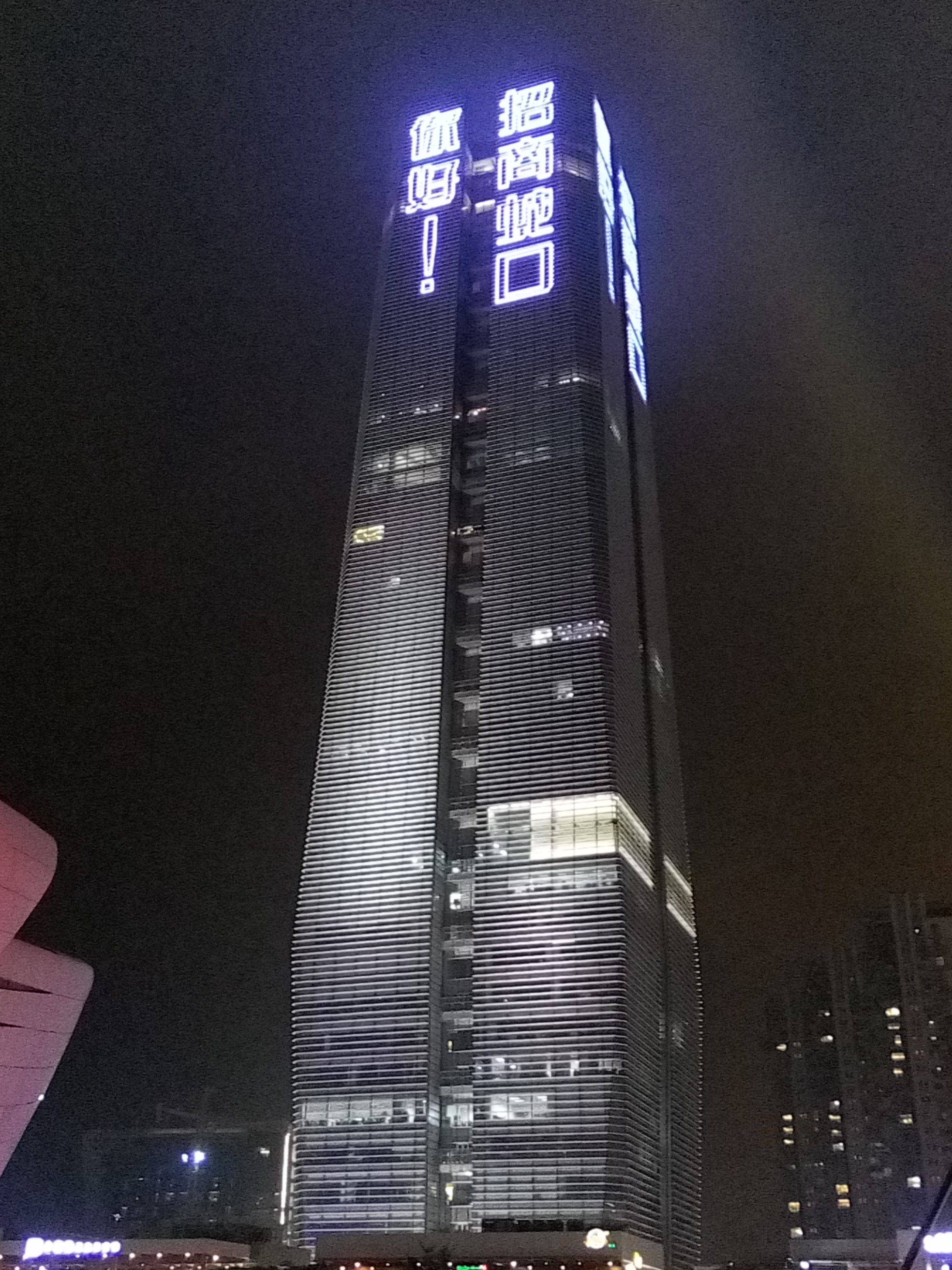 China Merchants Tower skyscraper in Shekou, Nanshan District, Shenzhen, China